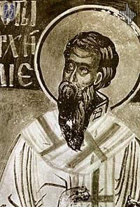 Icon from St. Nicholas Church in Vataša, Macedonia